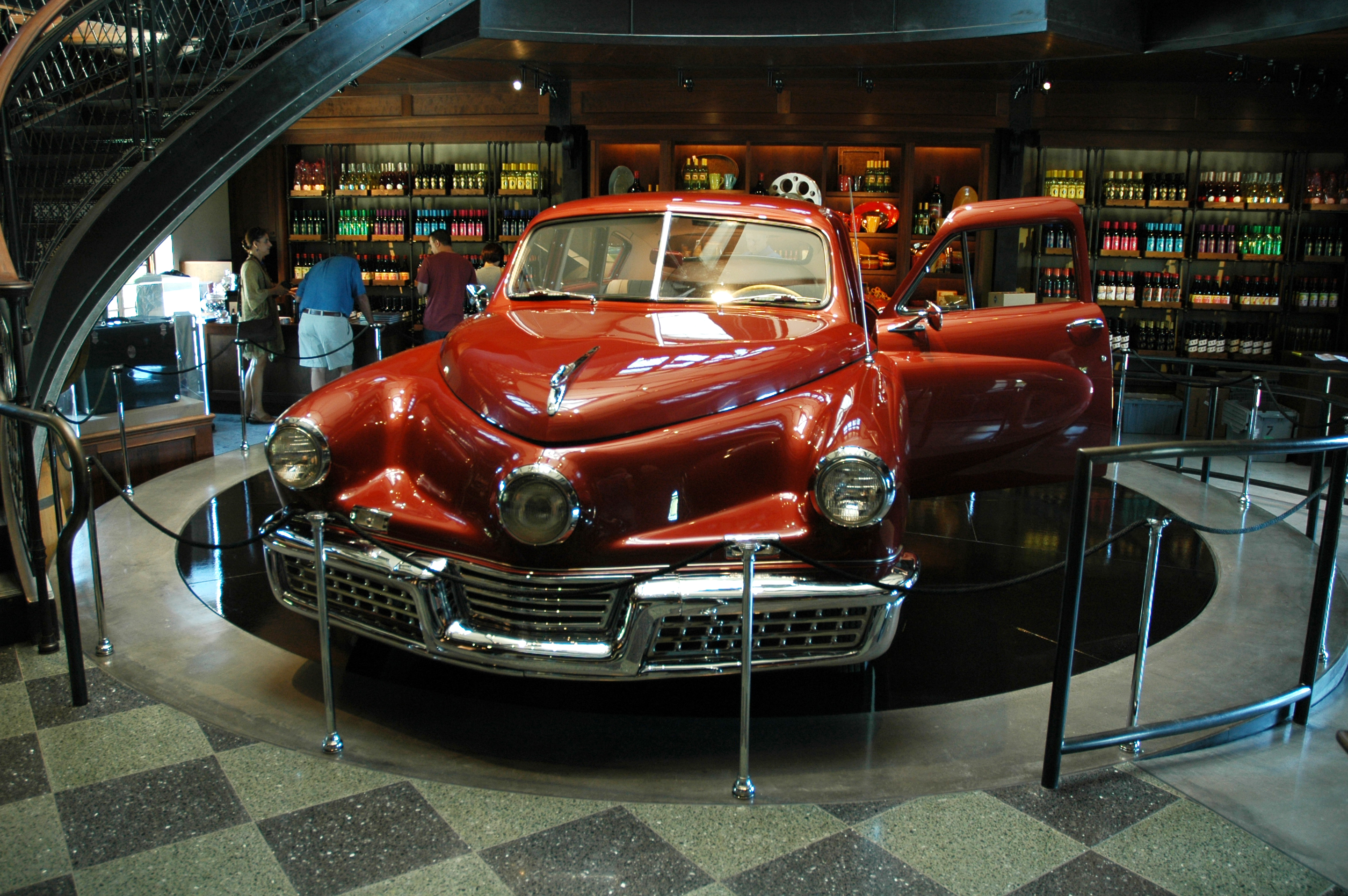 1948 Tucker Sedan in the Francis Ford Coppola Winery, Geyserville, California